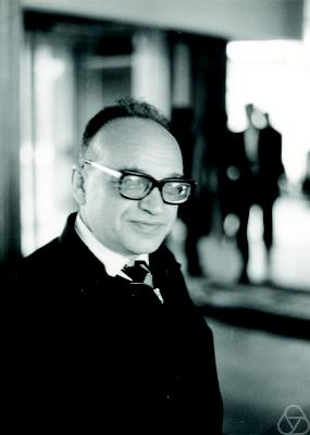 Akiva Yaglom, 1976 in Leningrad